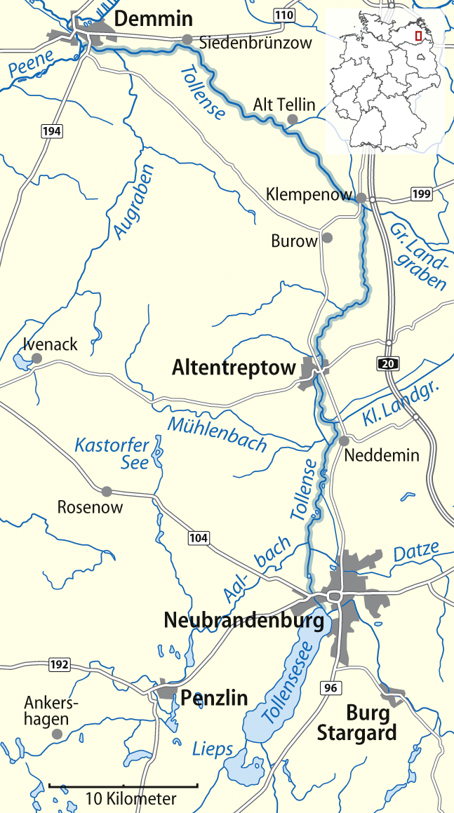 Map of river Tollense, Germany